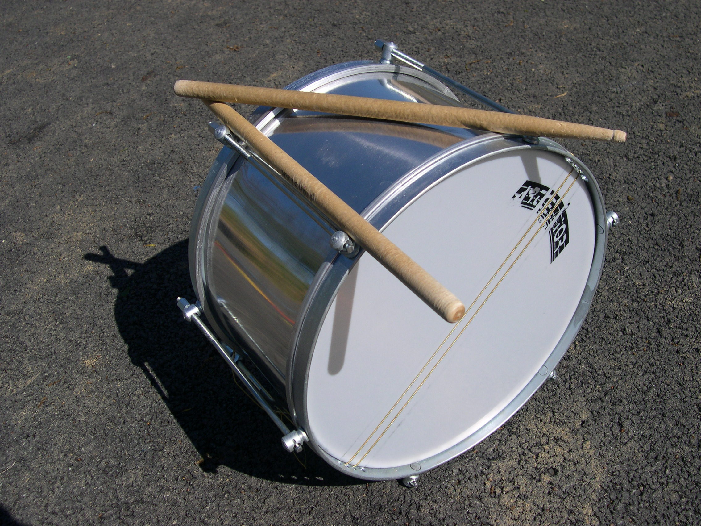 Samba snare drum with its wood drumsticks